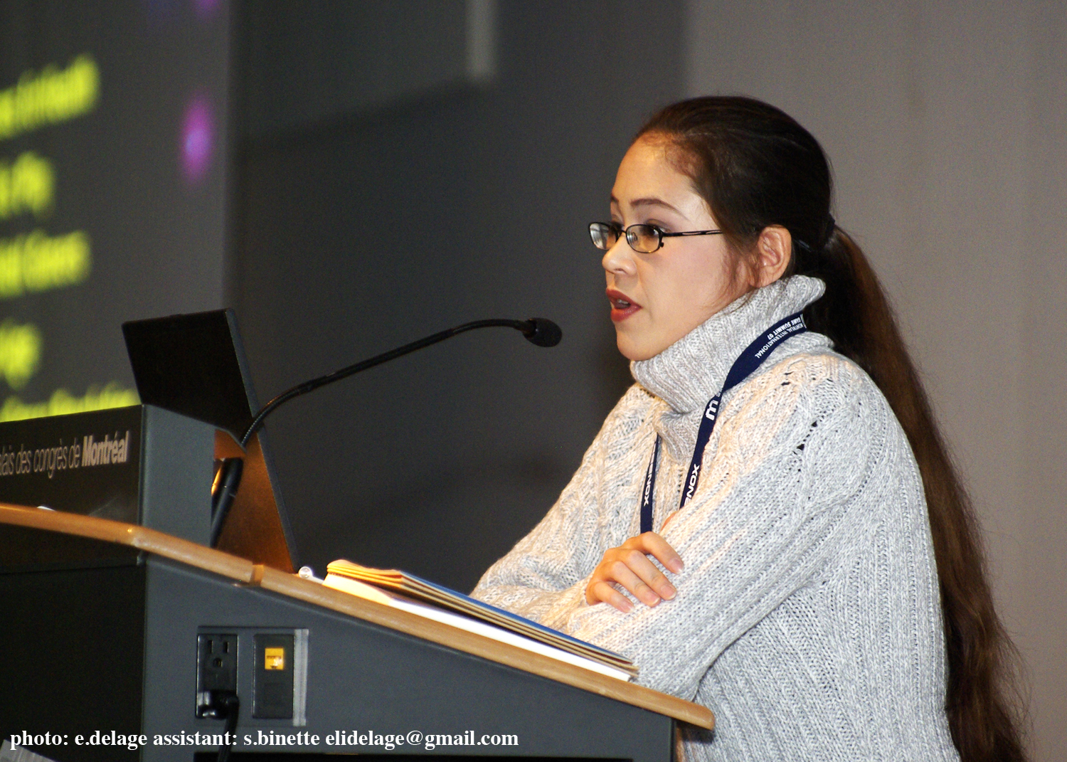 Game designer Erin Hoffman speaking at the Montreal International Games Summit 2007.